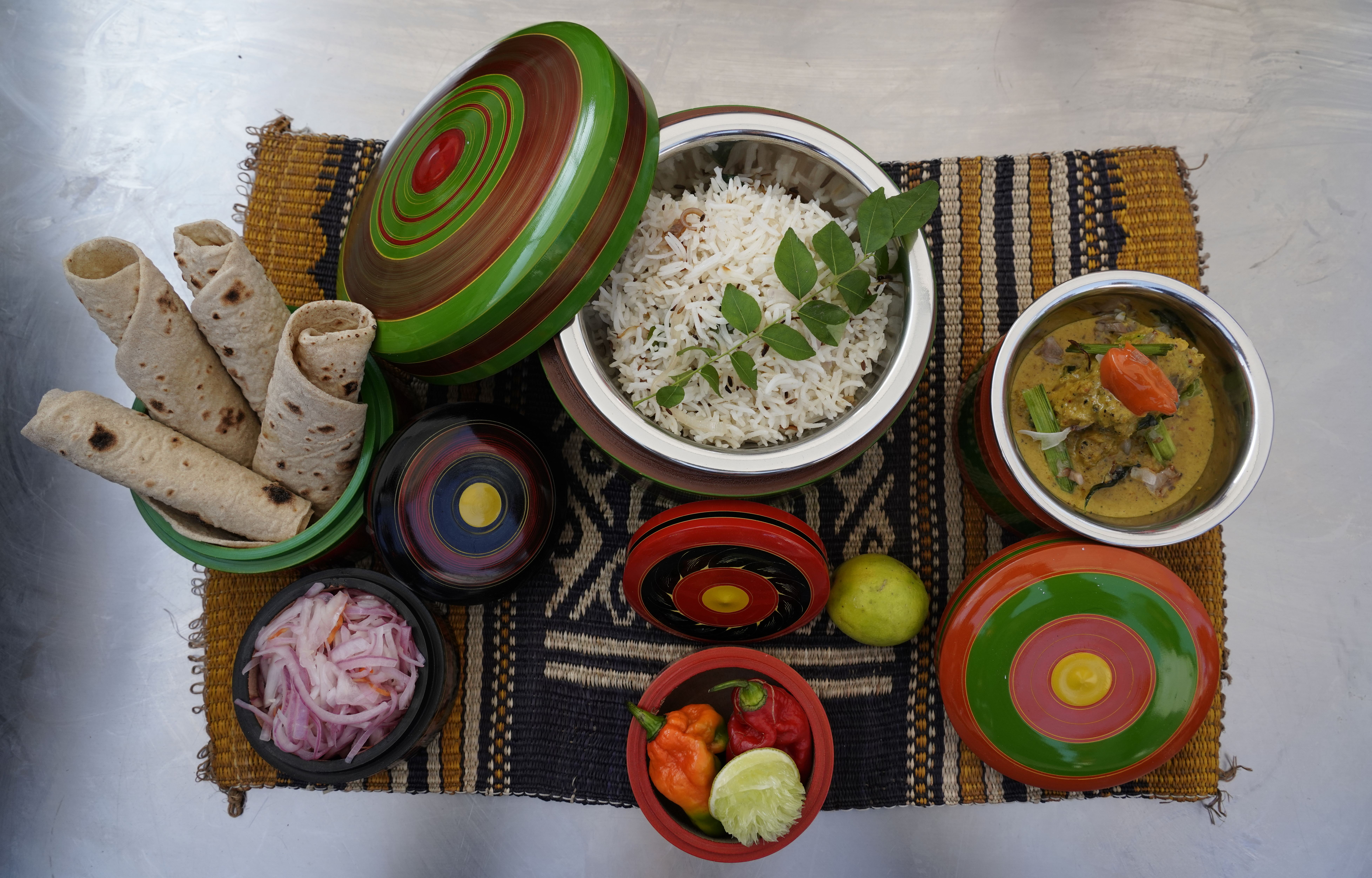 Chefs from Maldives preparing Kandu Kukulhu at World Heritage Cuisine Summit & Food Festival 2018